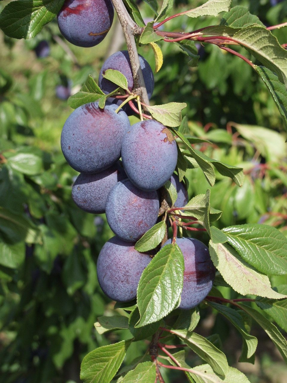 Plum cultivar 'Valor'